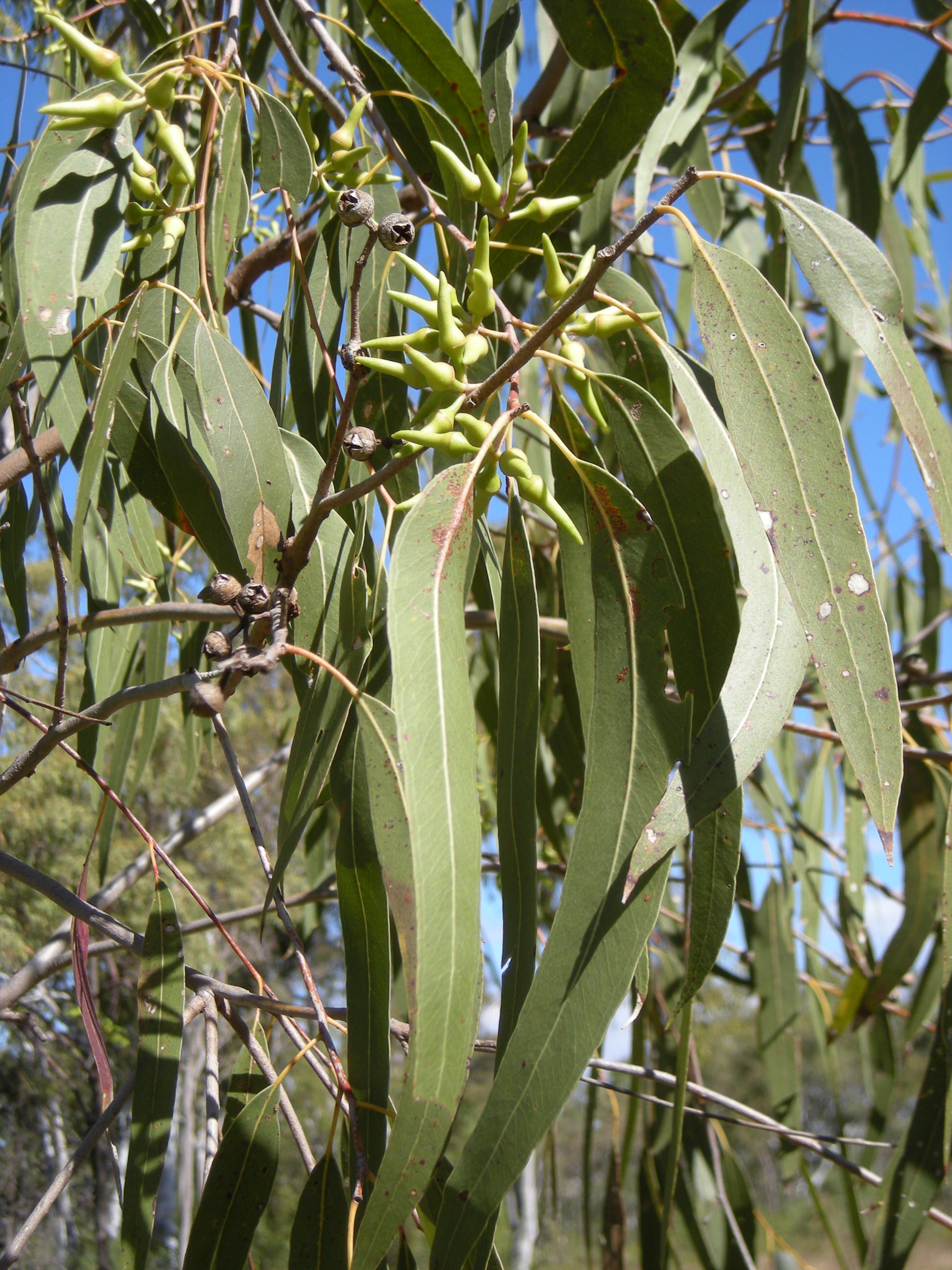 Eucalyptus terticornis buds, capsules and foliage, Rockhampton, Queensland.